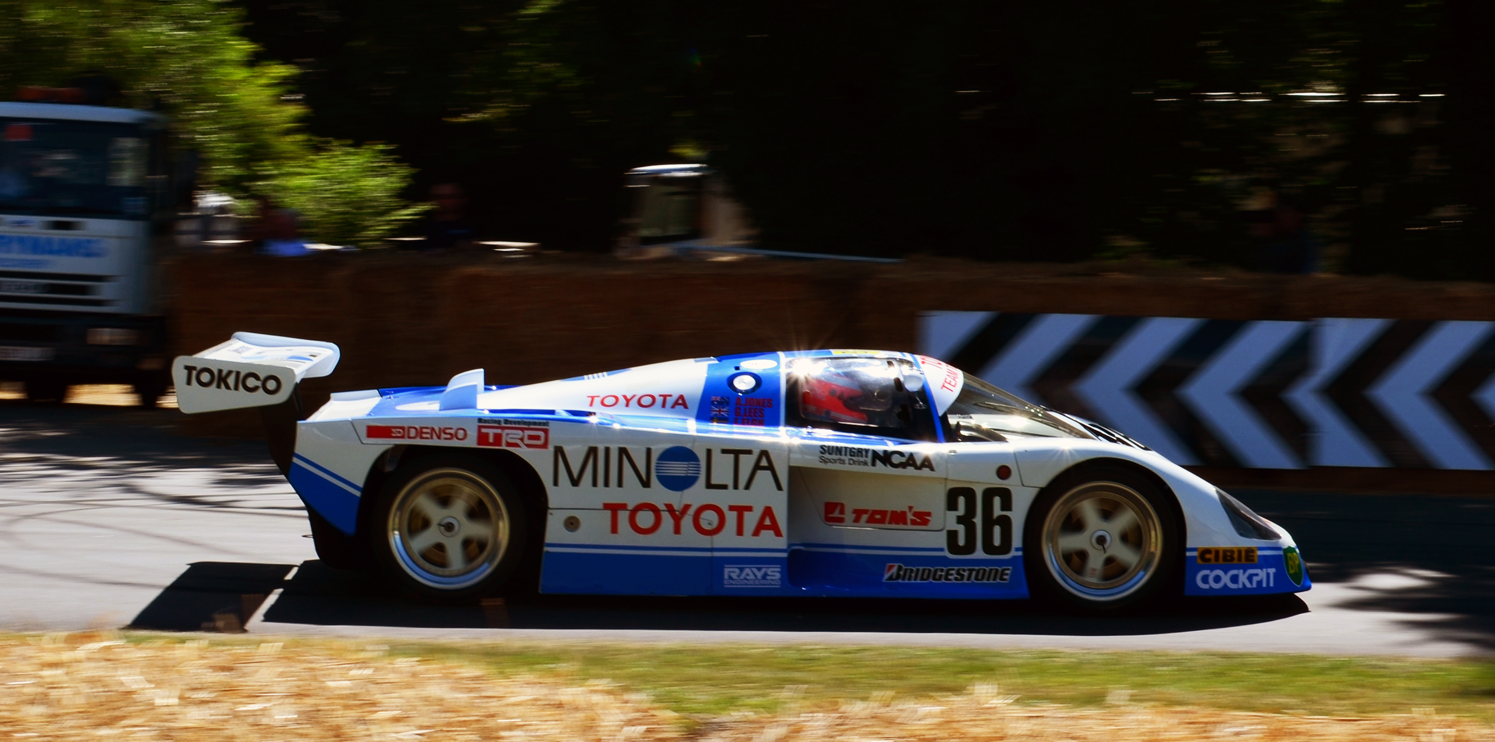 The 1987 Toyota 87C at the 2014 Goodwood Festival of Speed.